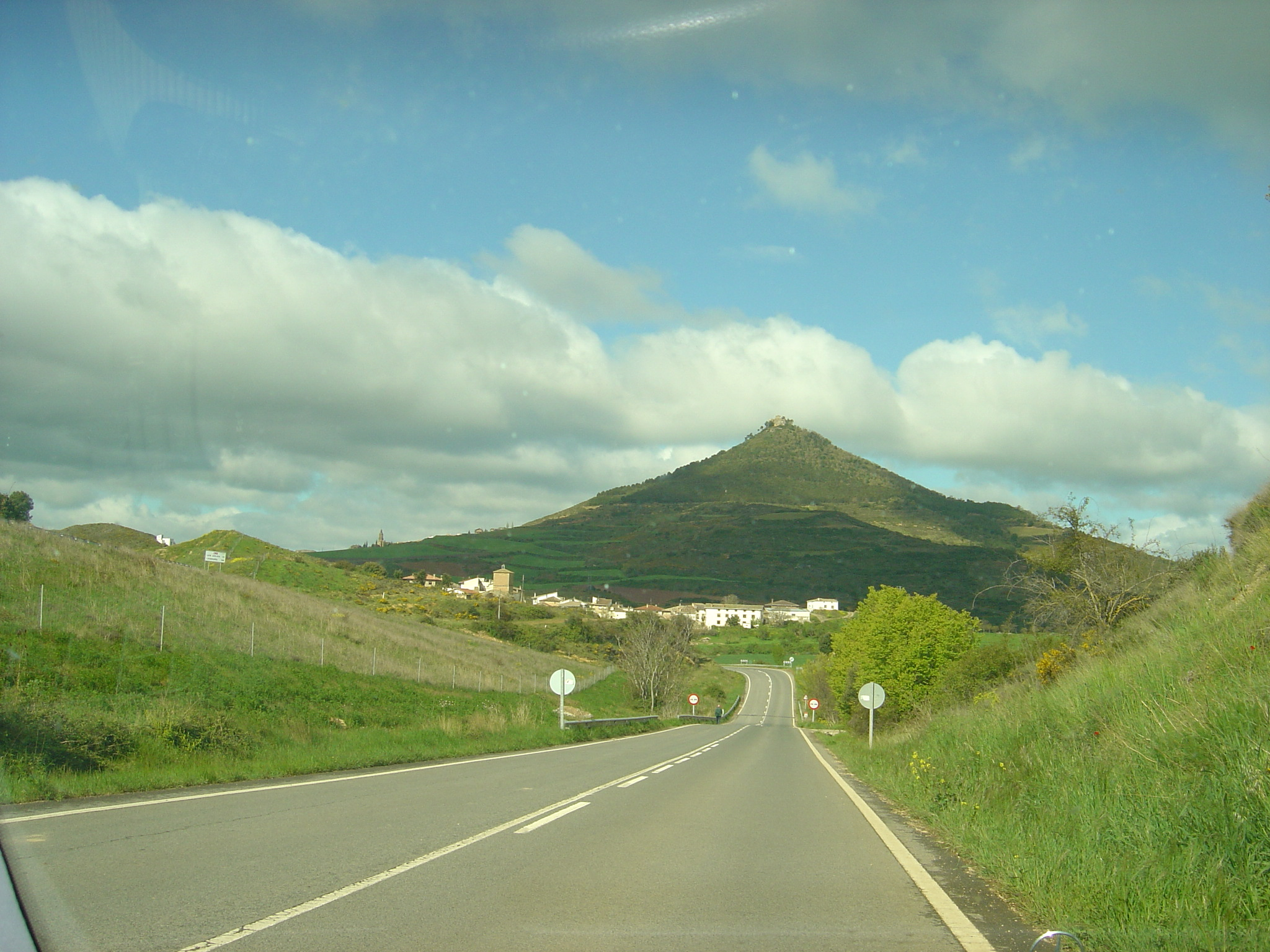 Azketa / Azqueta, Navarra, Spanien/Spain - although the title is different, it's the village before Monjardin, in the backround you can see the tower of the church of monjardin Cornava